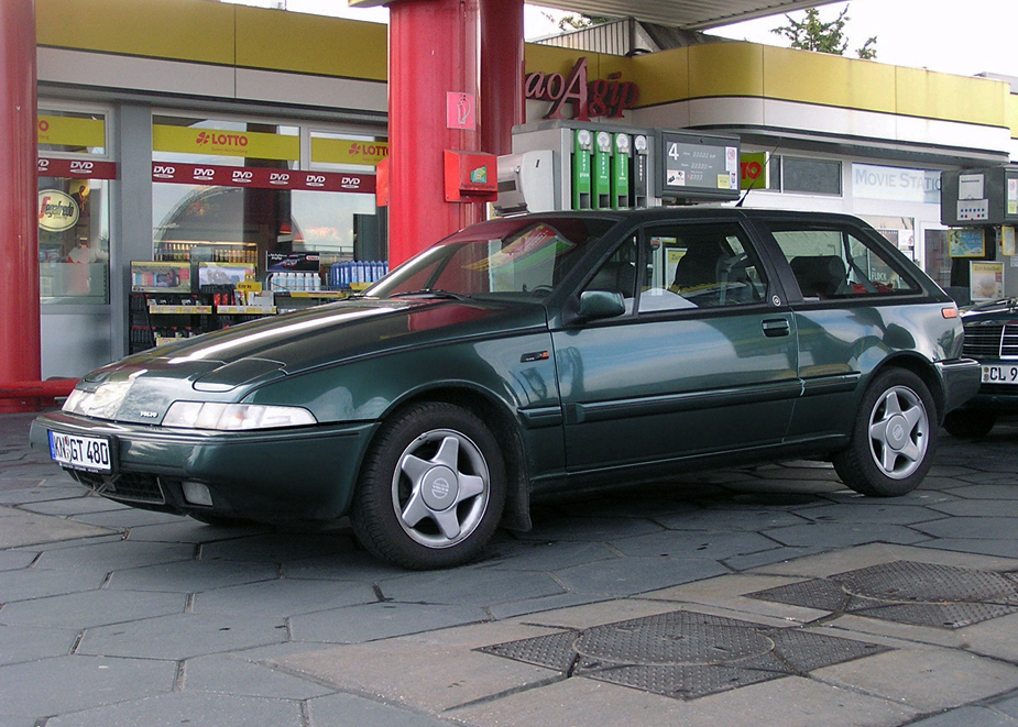 Special Edition: Volvo 480 GT (1994) in dark green metallic, for the first time TRACS included